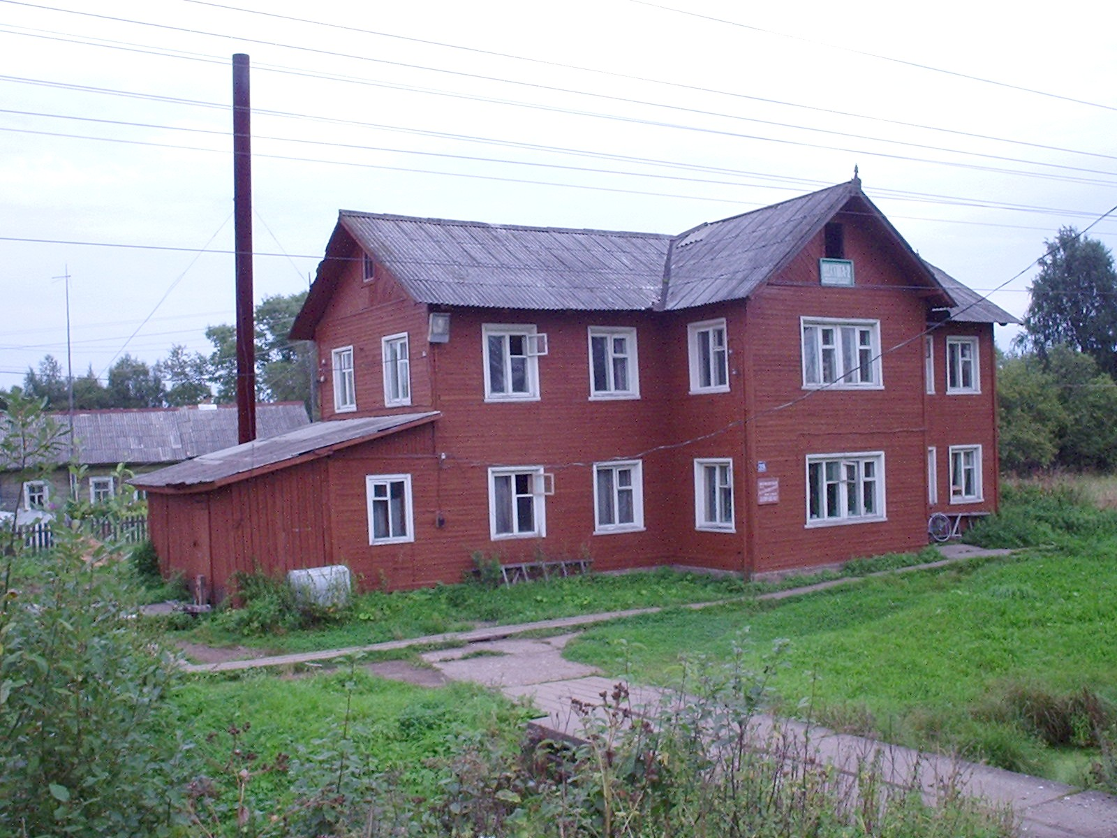 Vohtoga, Gryazovetsky District, Vologda Oblast